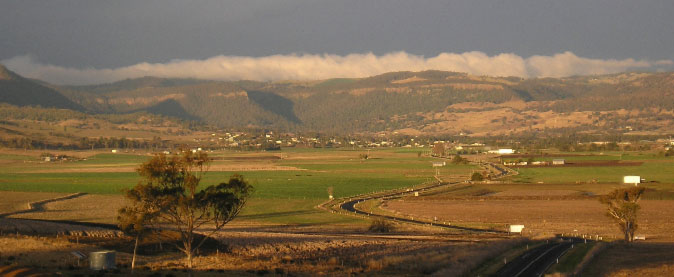 Looking down to the township of Killarney, Queensland from the McCormack property "The Lakes" (2662 Warwick-Killarny Rd)